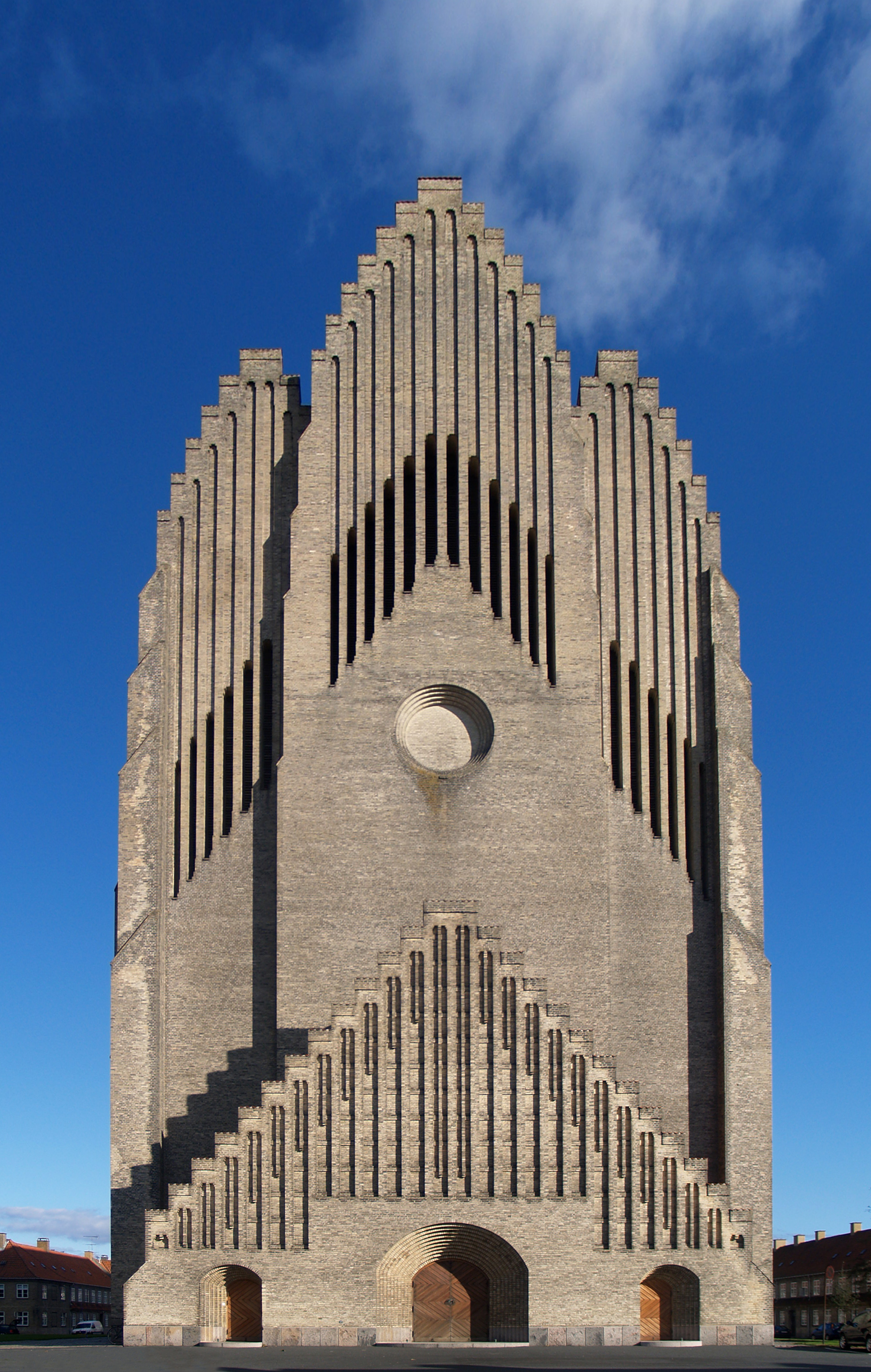 Jensen-Klint's main work, the Grundtvig Memorial Church northwest of Copenhagen, is often named as an example of expressionist architecture.